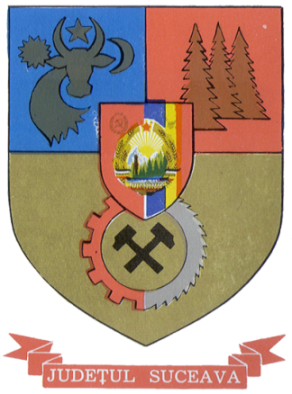 Communist coat of arms of Suceava County, Socialist Republic of Romania.